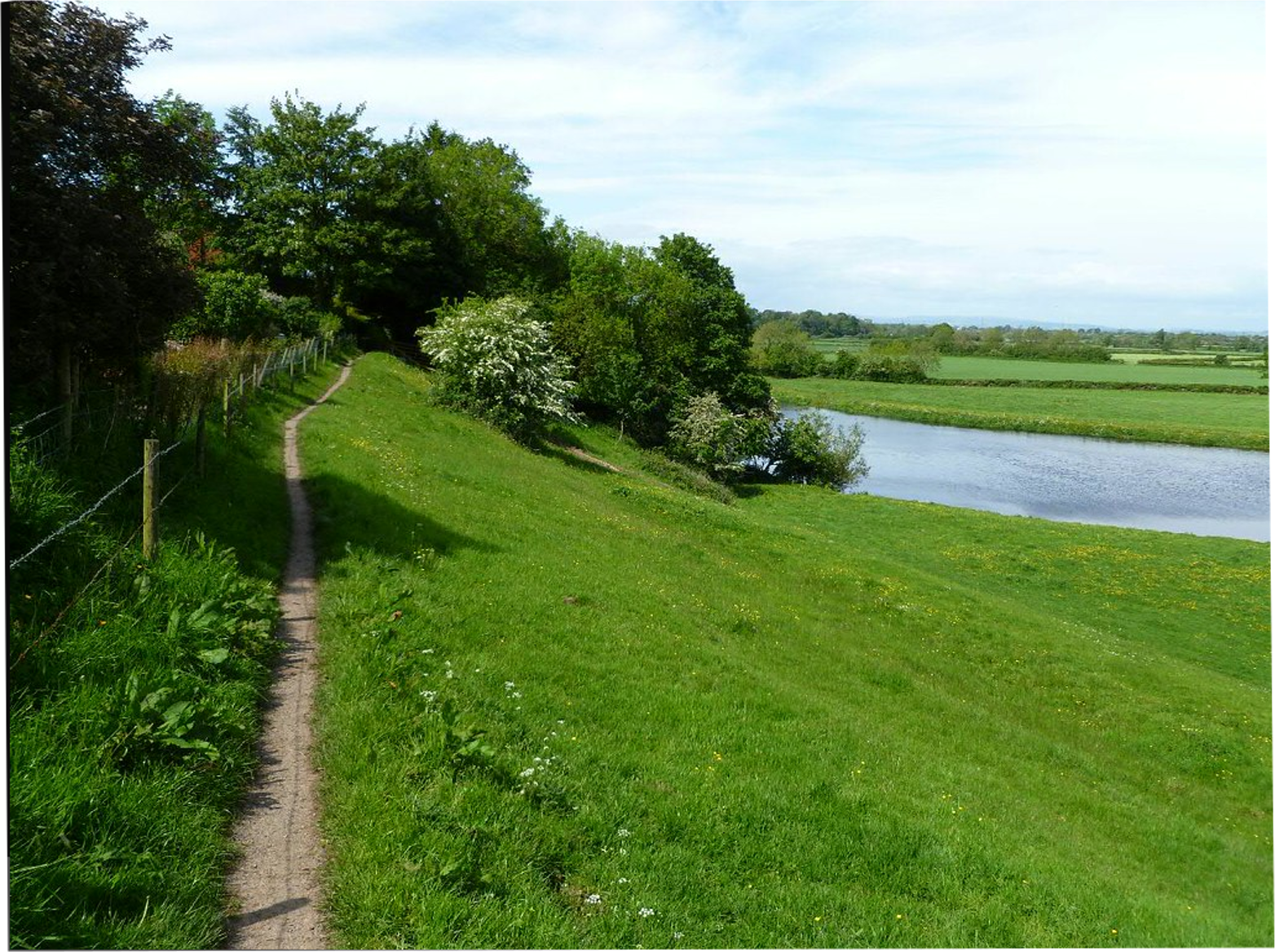 View along the river Eden terrace towards the location of Milecastle 70 (Hadrians Wall). Looking NW.